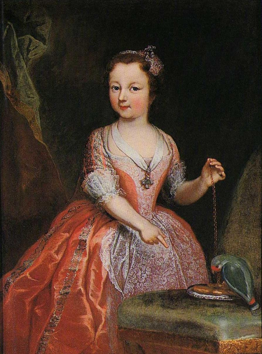 Portrait of the Princess Maria Luisa of Savoy (1729–1767) as a child